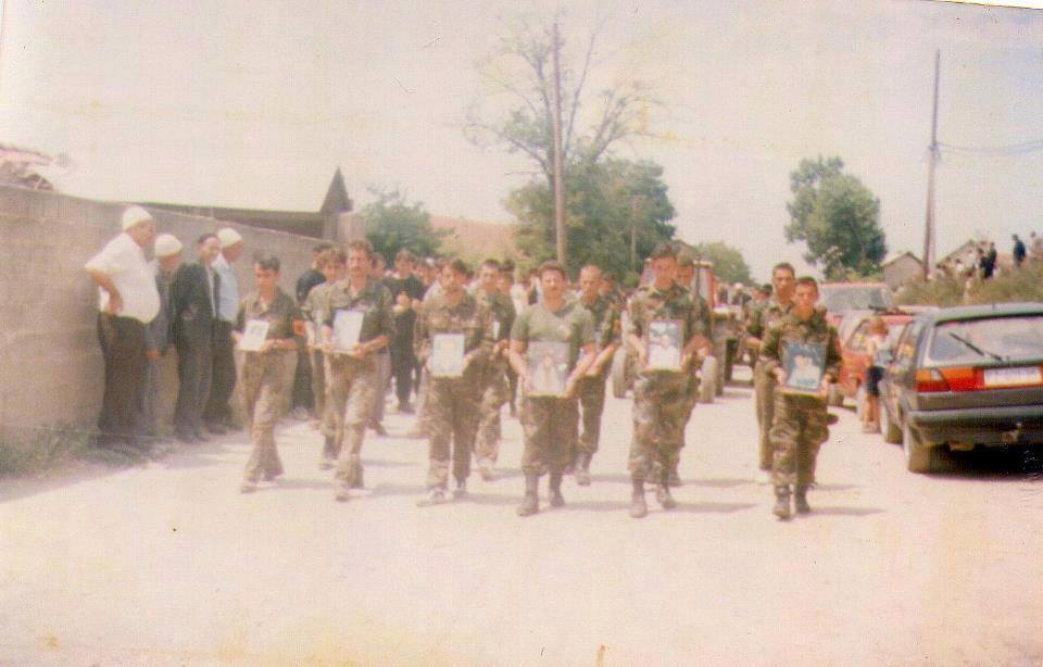 The soldiers of Kosovo are holding pictures in memory of the men who were killed or went missing during the Kosovo War in the event of the Massacre of Krusha e Madhe.